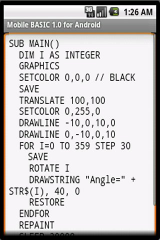 Screenshot of MobileBASIC for Android with opened source file.